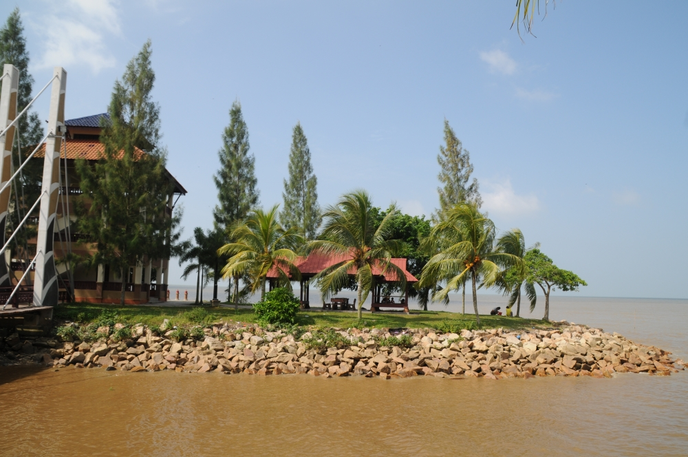 Rambah River Recreation Centre